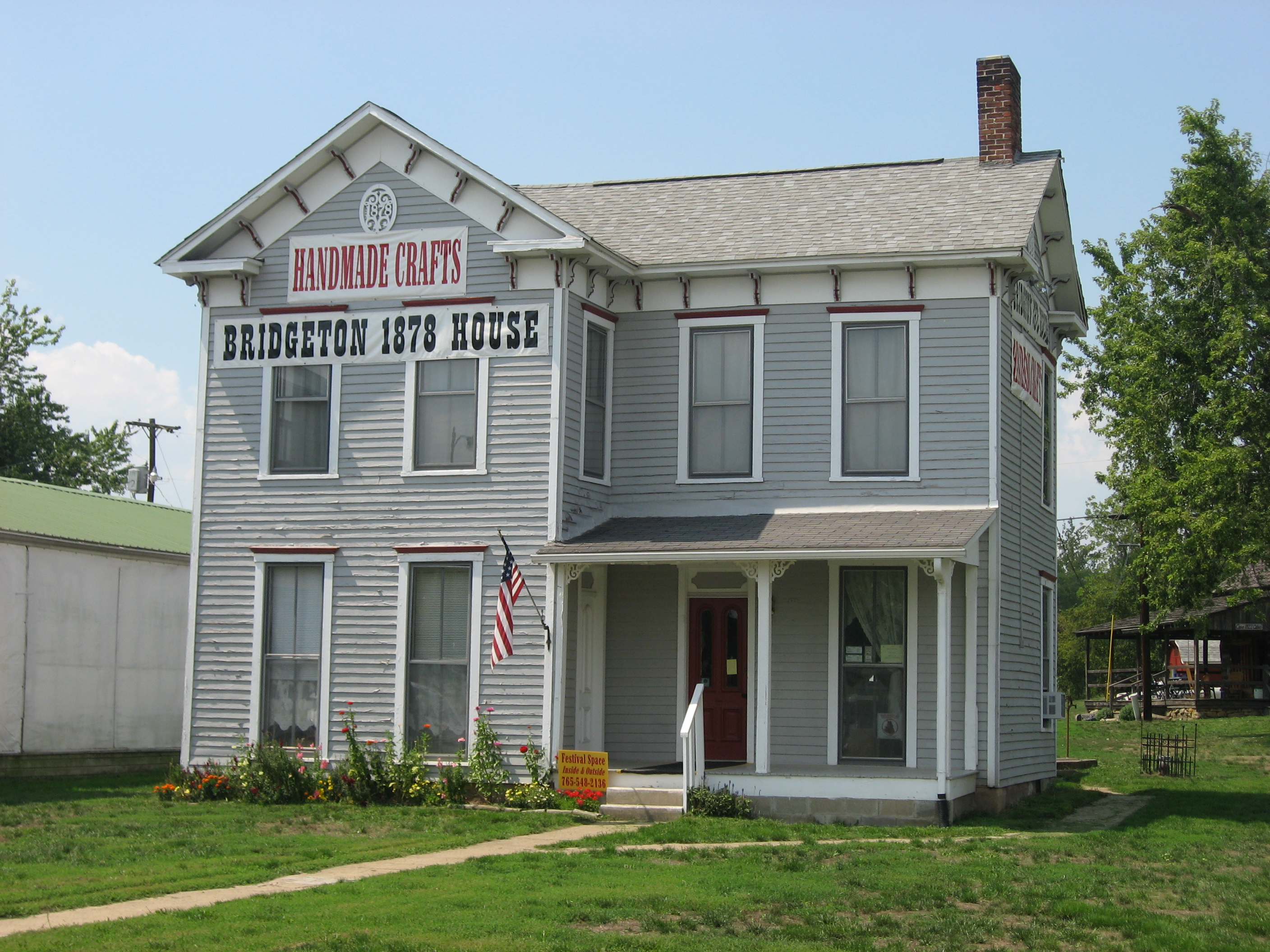 Front of the Sprague-Webster-Kerr House (the "1878 House"), located on Main Street in central Bridgeton, Indiana, United States. Built in 1878, it is part of the Bridgeton Historic District, a historic district that is listed on the National Register of Historic Places.